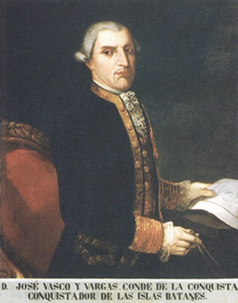 José Basco y Vargas (1733-1805) — 44th Spanish Governor-General of the Philippines, under Spanish colonial rule.